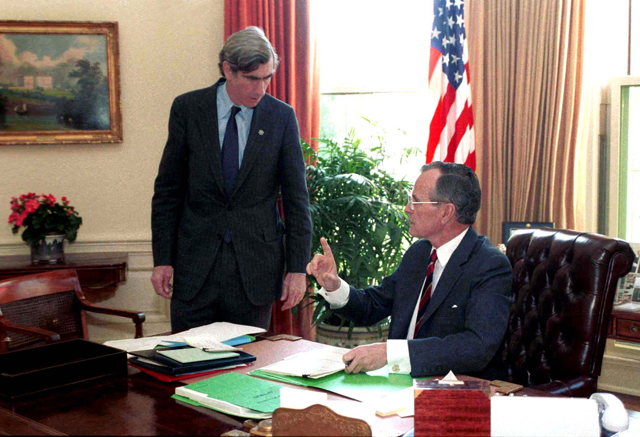 President George H. W. Bush signs Executive Order Ethics Package as C. Boyden Gray, Counsel to the President, looks on in the Oval Office of the White House. 12 Apr 89